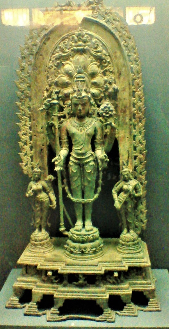 Statue of Hindu God Vishnu, made from Bronze, preserved in National Museum of Bangladesh